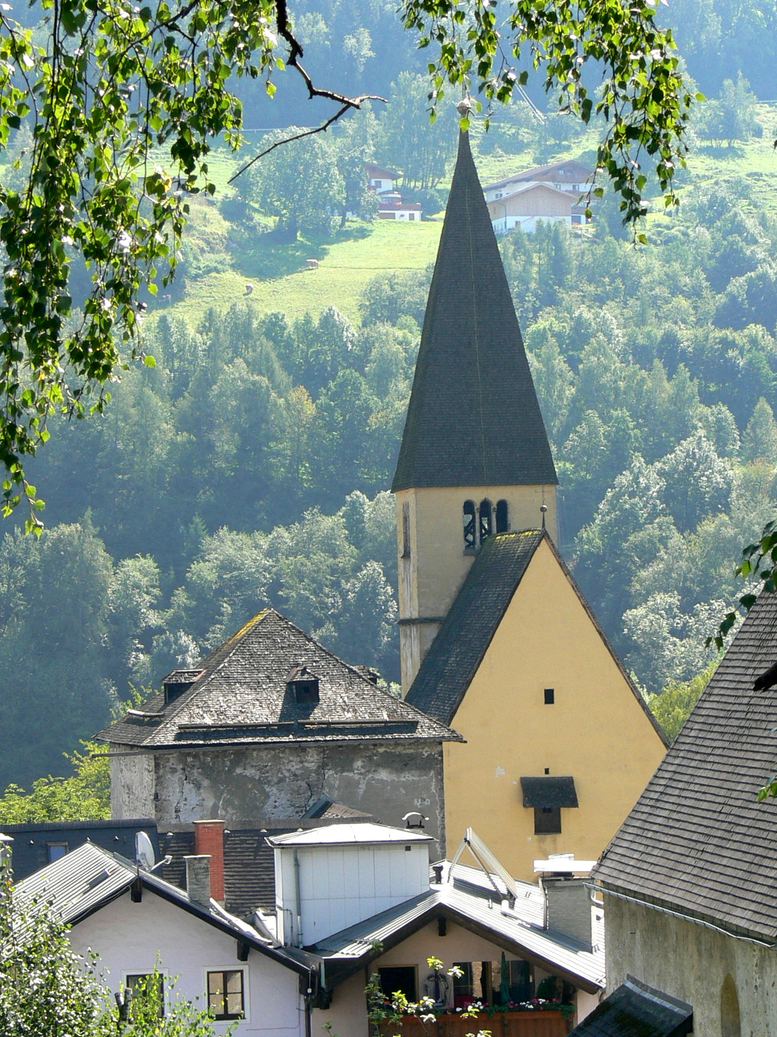 Saint Maximilian church in Bischofshofen ( Salzburg ). Exterior with medieval "Kastenturm".